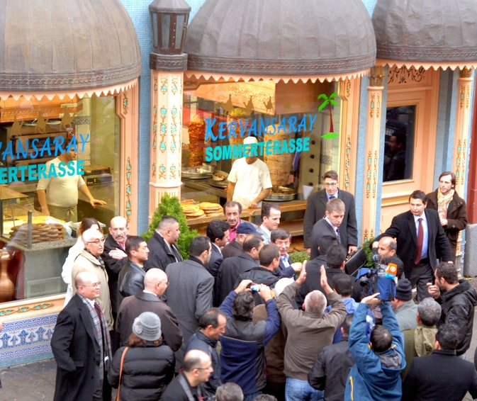 Ahmet Davutoğlu, Foreign Minister of Turkey, visiting the place of 2004 Cologne bombing.